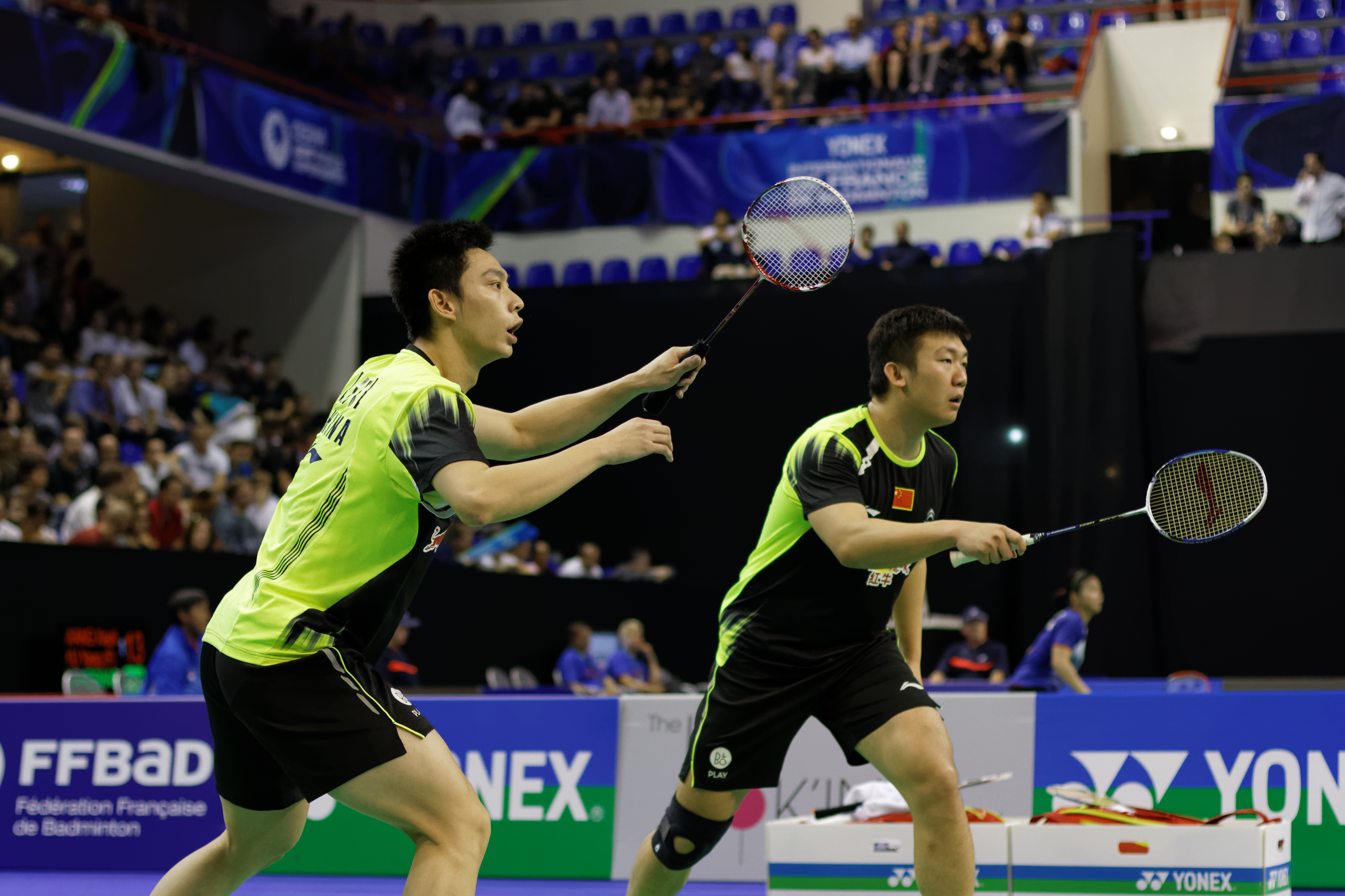 2013 French open. Men's doubles quarterfinal. Liu Xiaolong and Qiu Zihan vs Mathias Boe and Carsten Mogensen.